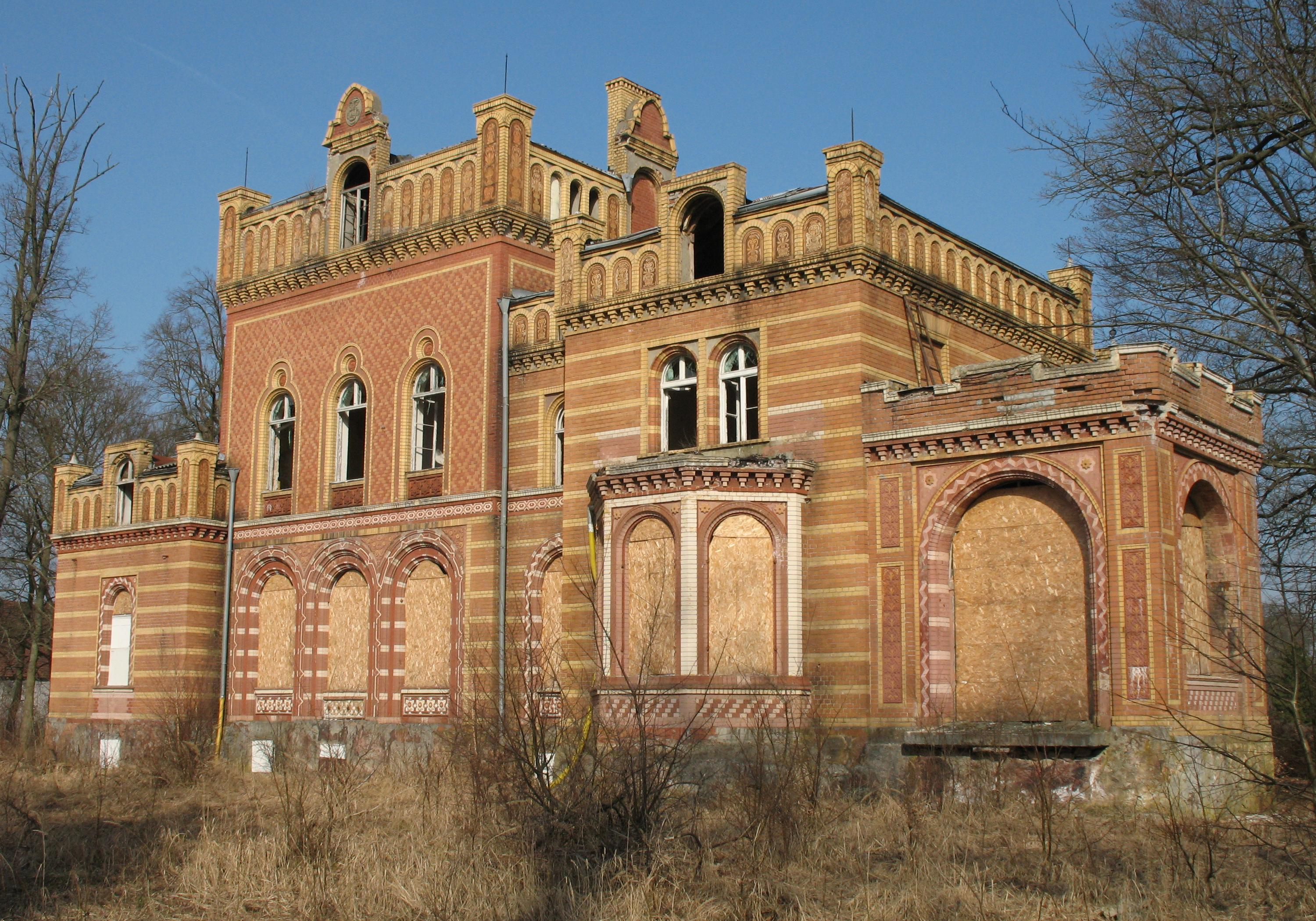 Manor house of the family Gentz in Neuruppin-Gentzrode in Brandenburg, Germany